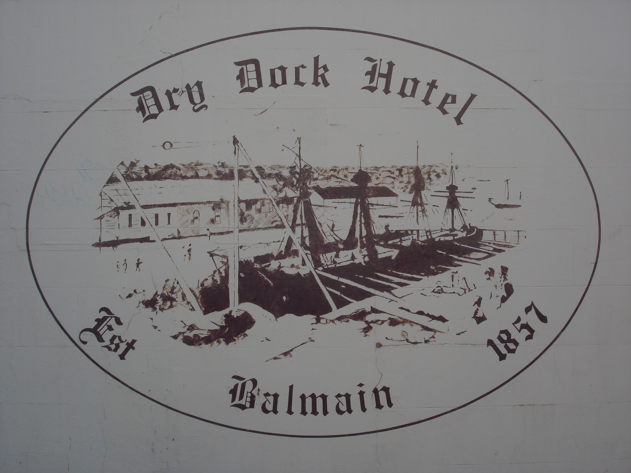 Dry Dock Hotel, Balmain. Picture taken on 28/5/06 by user Amitch.